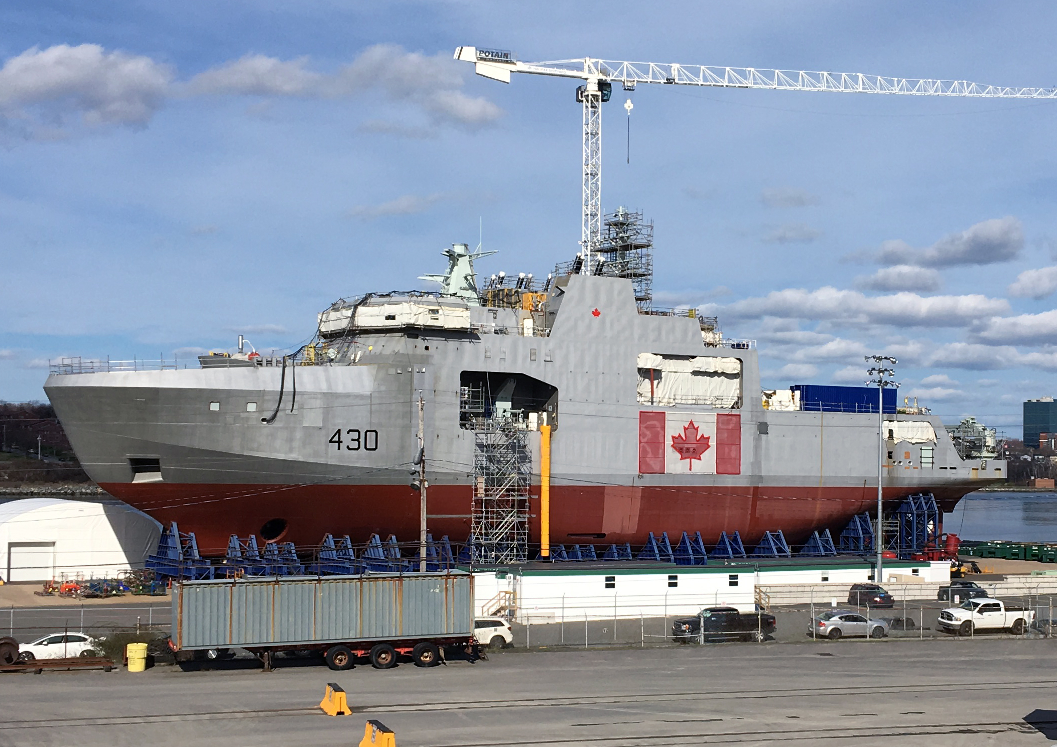 HMCS Harry Dewolf, lead vessel in class, under construction in the Halifax Shipyard May 2018